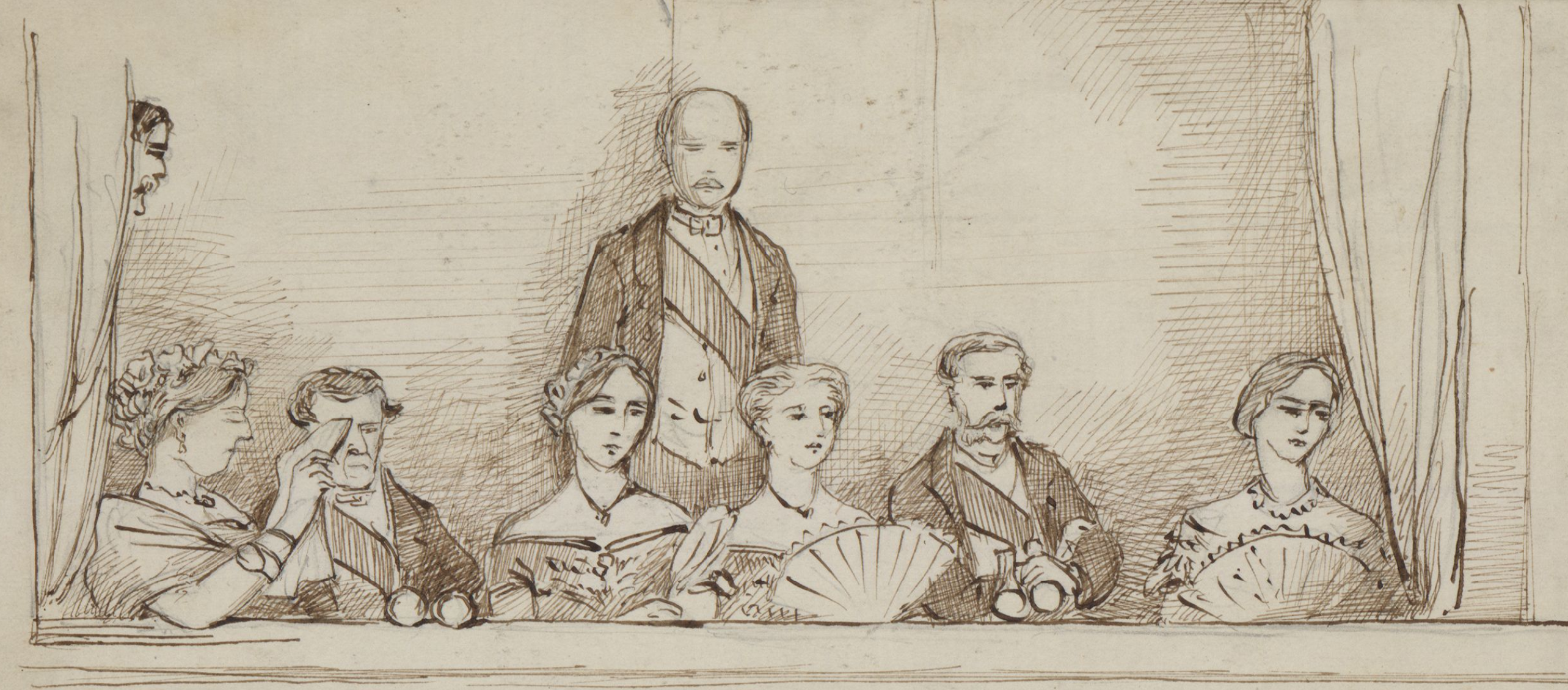 (Left to Right) Queen Victoria,Leopold I of Belgium, Princess Charlotte of Belgium, Prince Albert (standing), Victoria Princess Royal, Friedrich Crown Prince of Prussia, Lady Frances Jocelyn. A sketch of European Royalty watching Fra Diovolo at the opera, Probably in London. This was sketched in the same month that Princess Charlotte of Belgium married Archduke Maximilian of Austria in Brussels. From a sketchbook by Francis Elizabeth Wynne, of Voelas and Cefnamlwch in North Wales.